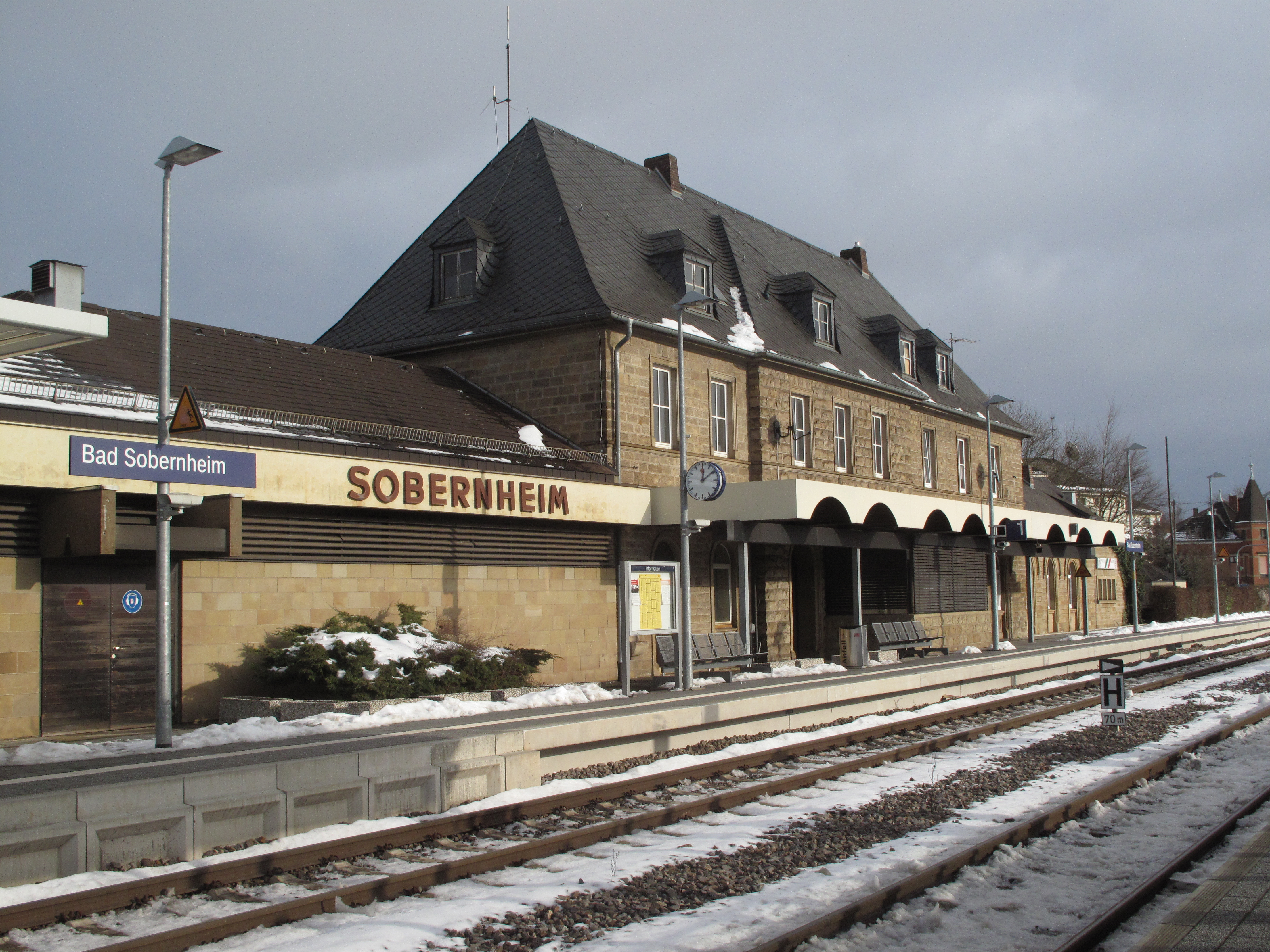 Bad Sobernheim is a small town and health resort on the River Nahe, well known for its mineral waters, its orthopedics and rheumatology clinics and the nearby 3.5 km “barefoot path”, the first of its kind in Germany, used for therapy but also for fun. In the historical town center there are some remarkable old buildings, the oldest dating from the 15th century. Bad Sobernheim este un mic oraş şi staţiune balneară situat pe valea râului Nahe, cunoscut pentru apele minerale, pentru clinicile de ortopedie şi reumatologie, ca şi pentru “cărarea pentru mers în picioarele goale”, prima amenajare de acest fel din Germania, un traseu de 3.5 km parcurs fie din motive terapeutice, fie ca distracţie. In centrul istoric se pot admira multe clădiri vechi, cele mai vechi dintre ele datând din secolul al XV-lea.